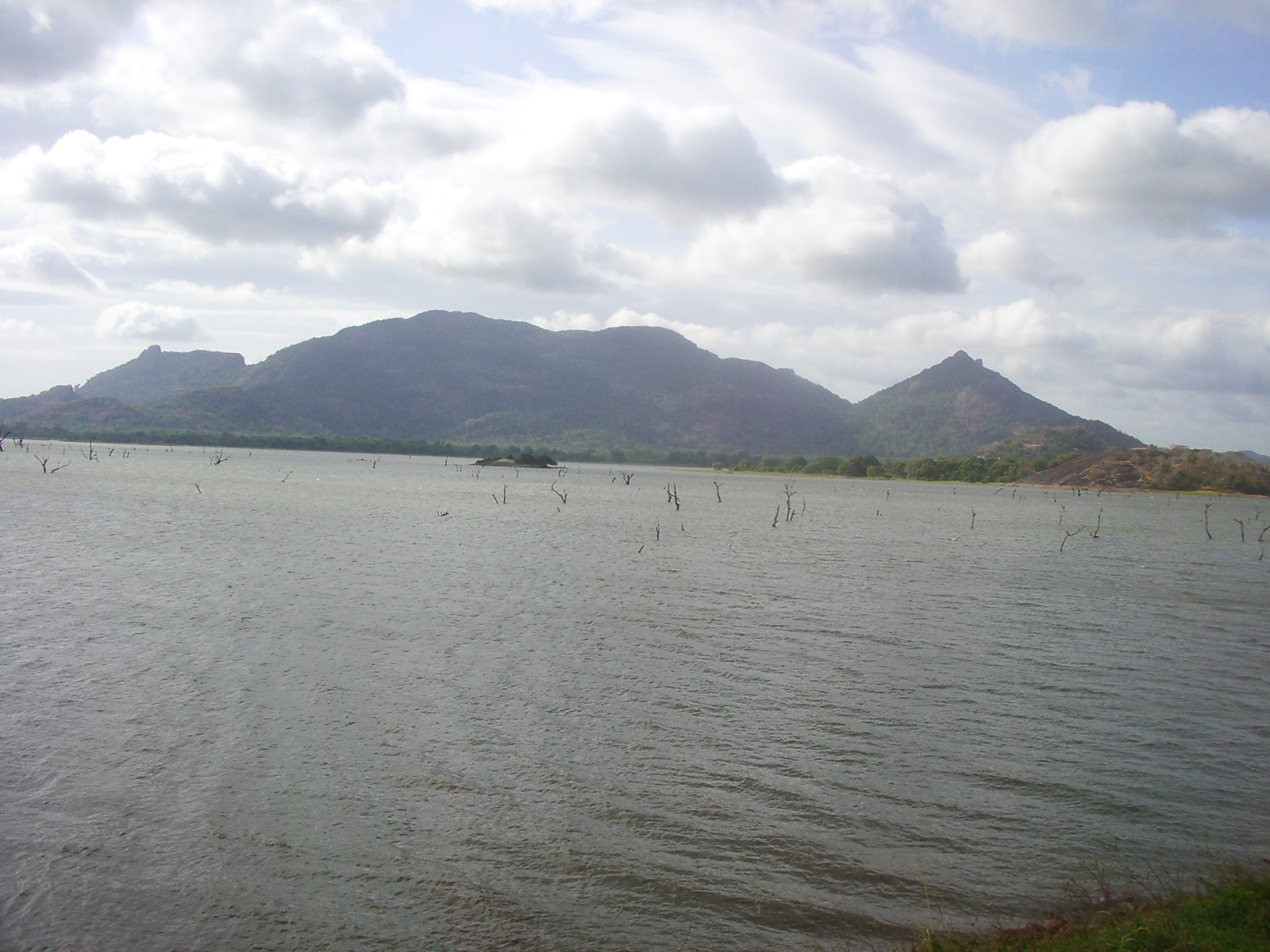 Water reservoir near Anuradhapura